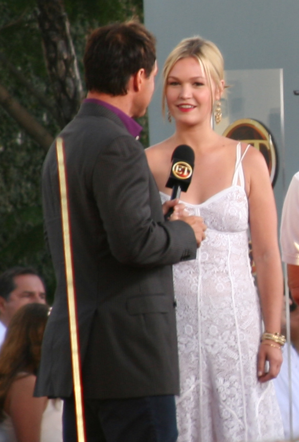 Julia Stiles being interviewed by Entertainment Tonight's Mark Steines at the Bourne Ultimatum premiere at the Cinerama Dome in Hollywood, CA on July 25, 2007.